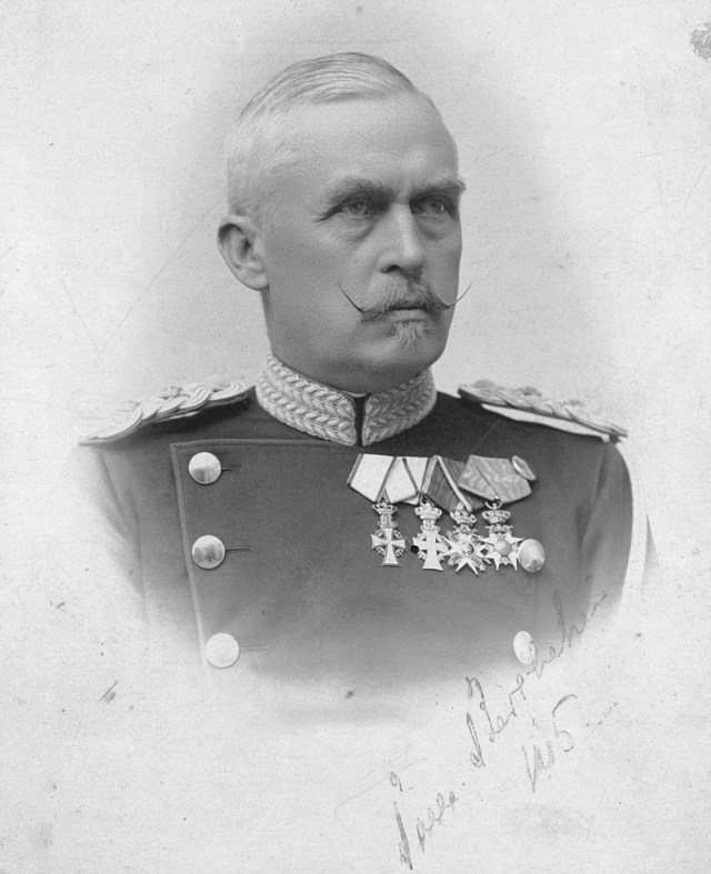 Berthel Palle Berthelsen (1857-1920), Danish general. Photo in the Danish Museum of Military History.